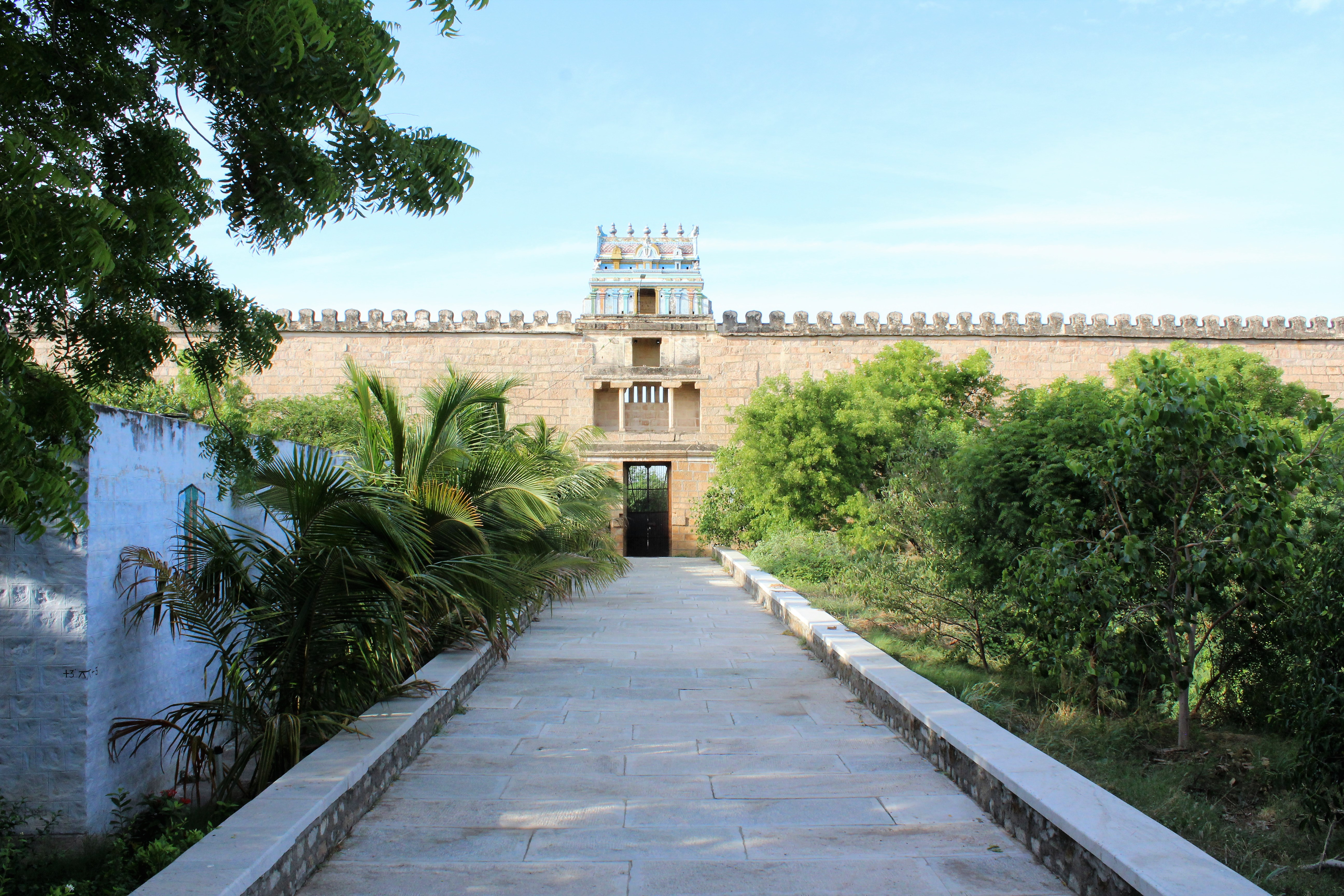 Pundarikakshan Perumal temple, Thiruvellarai